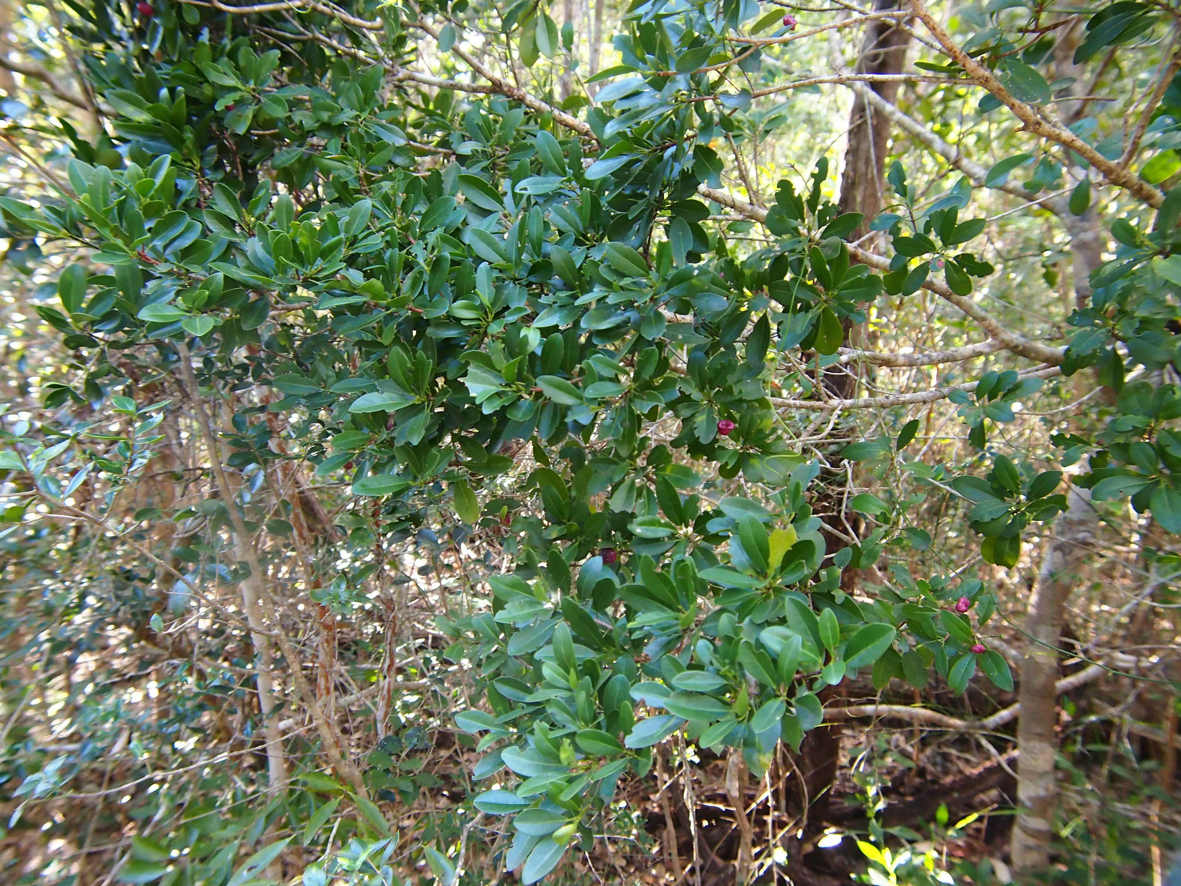 Acronychia laevis foliage with fruit